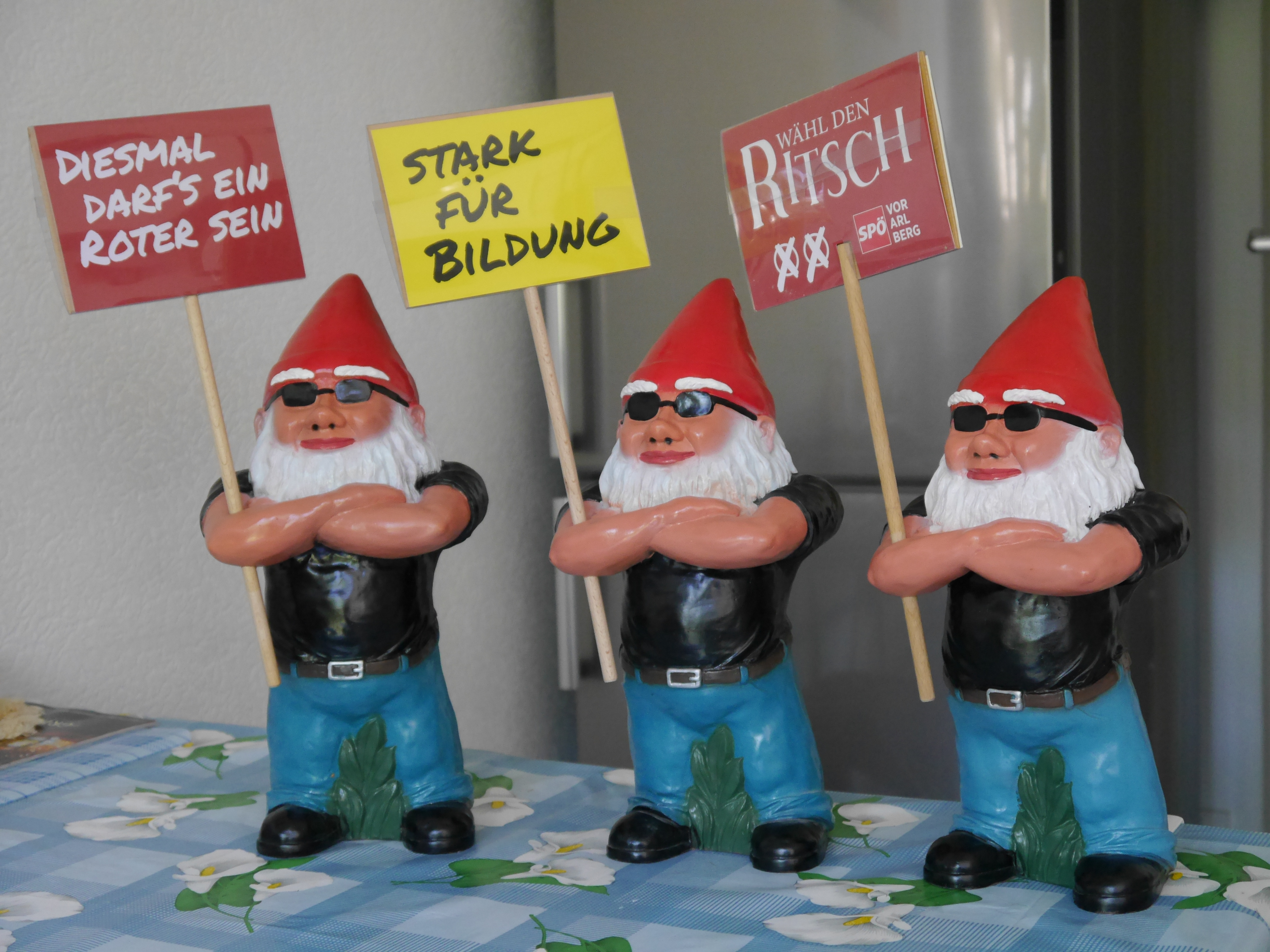 "Socialist" Garden gnomes as they were used in the political compaign at the local elections in the Austrian province of Vorarlberg.